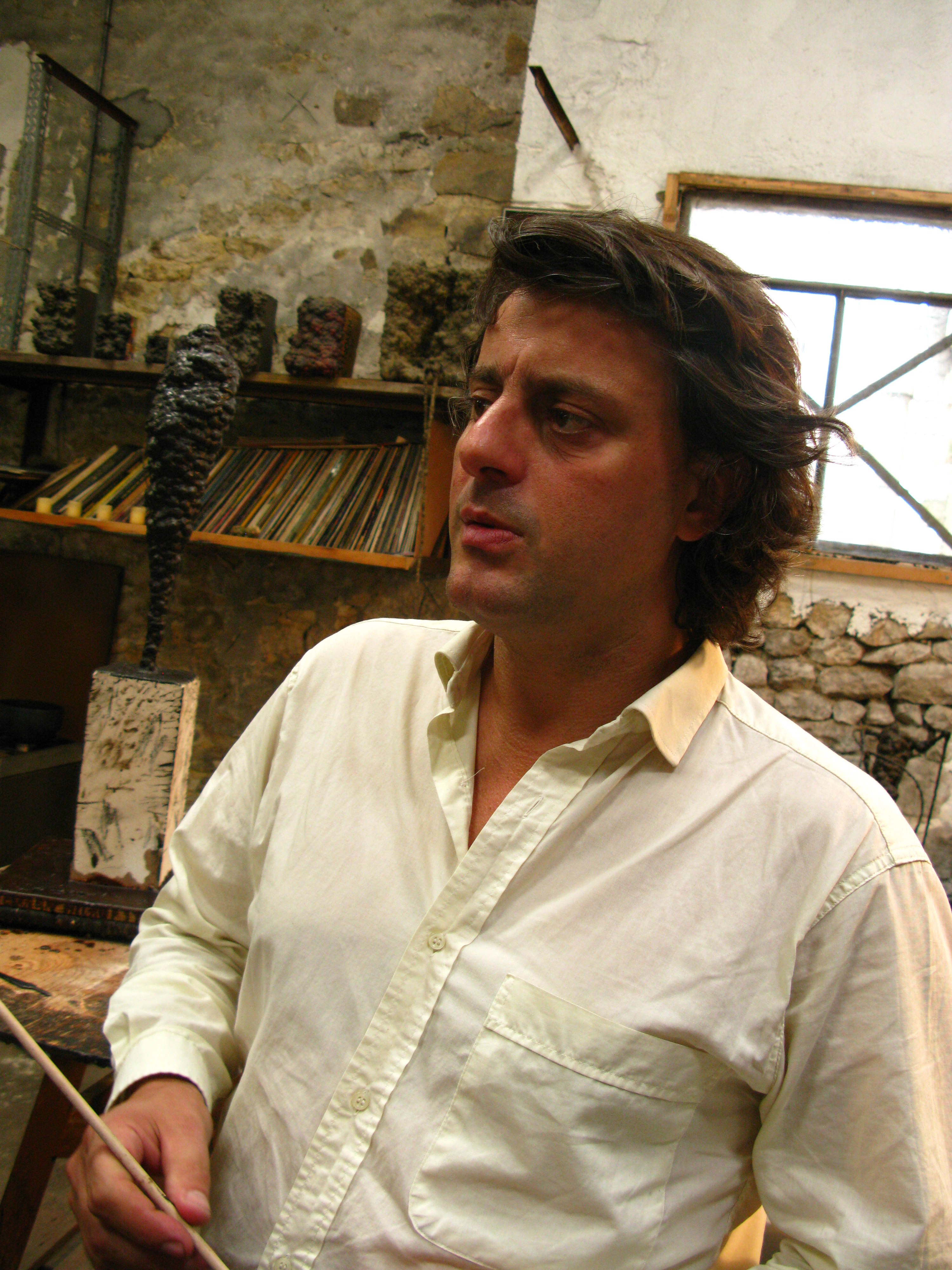 Paul de Pignol dans son atelier